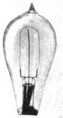 One of the bulbs Thomas Alva Edison used to discover thermionic emission (the Edison Effect) in 1884. It consists of an Edison incandescent lamp - an evacuated glass bulb with a hairpin shaped bamboo carbon filament - with an additional platinum foil electrode (center, inside the filament) connected to wire terminals. A current is applied to the filament, heating it. Edison found when he connected an ammeter between the filament and the auxiliary electrode, a current would flow, passing through the evacuated space of the bulb from filament to electrode. This current was later found to consist of electrons. This effect is the basis of vacuum tube technology, which dominated electronics for 50 years, until the 1970s.